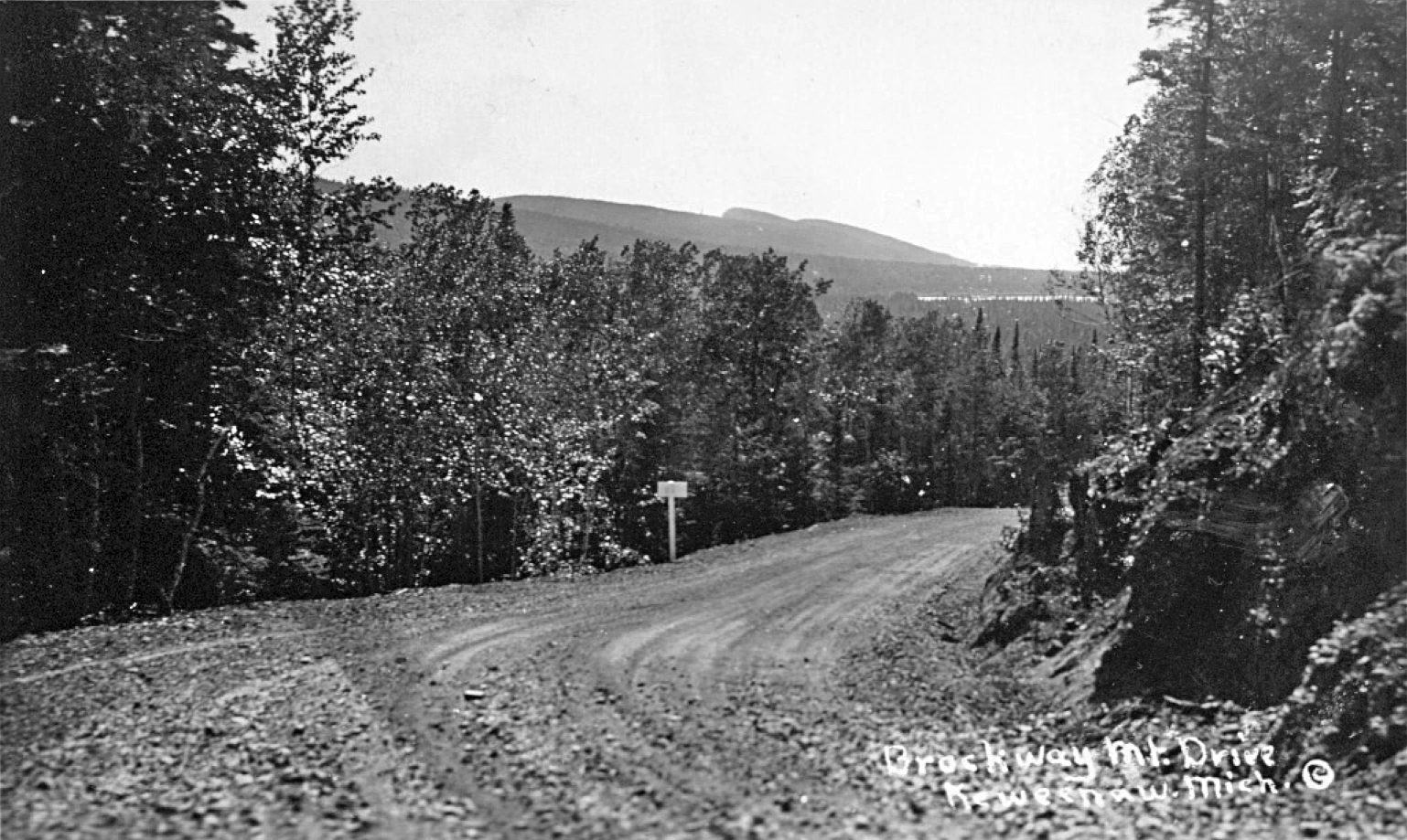 View towards western end of Brockway Mountain Drive. Lake Bailey and Mount Lookout (Mt. Baldy) visible in distance. Note presense of round, "ball bearing" gravel in foreground.